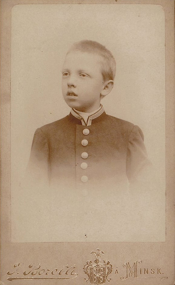 Symon Woynilowicz (1885-1897), Edward Woynillowicz's son